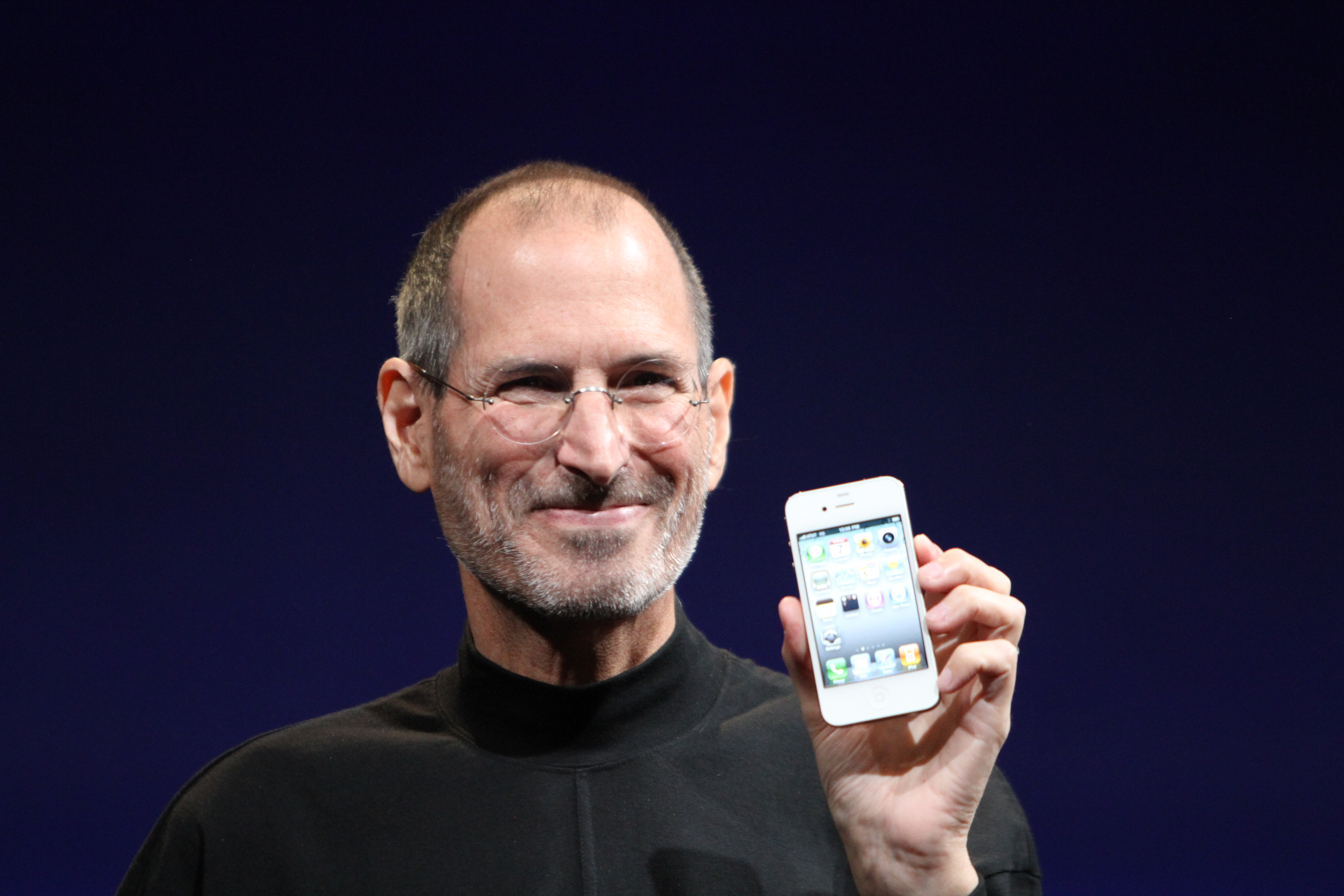 Steve Jobs shows off iPhone 4 at the 2010 Worldwide Developers Conference